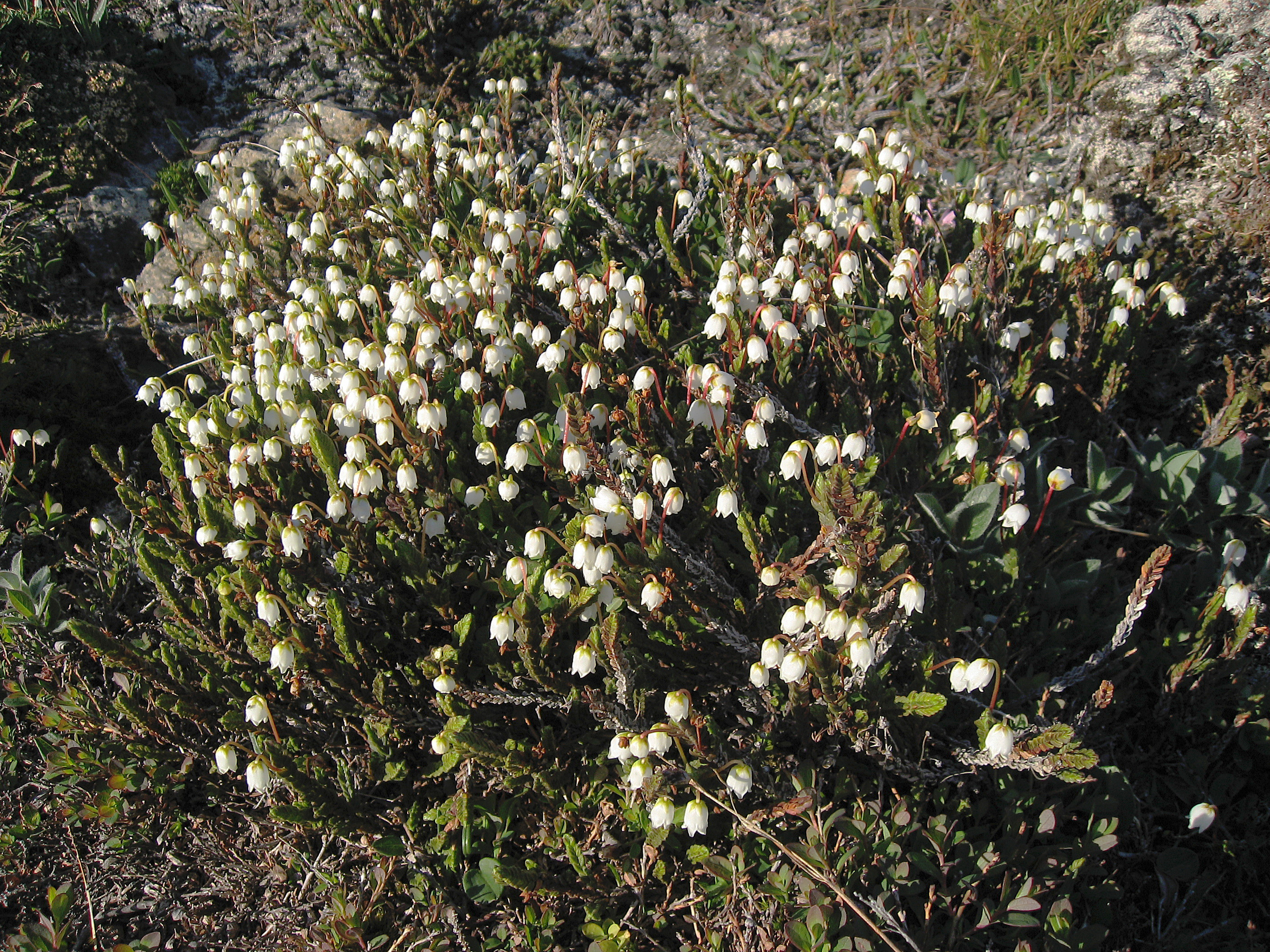 White Arctic Mountain Heather Cassiope tetragona photographed near Upernavik, Greenland